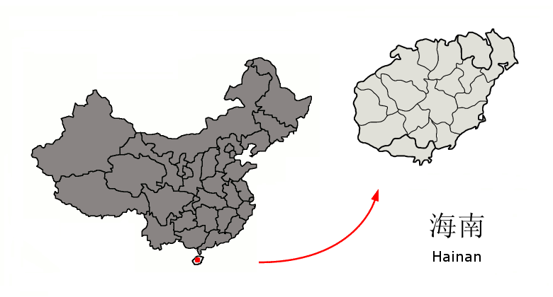 County-level subdivisions in Hainan province of China Map drawn in september 2007 using various sources, mainly : Hainan Counties map from